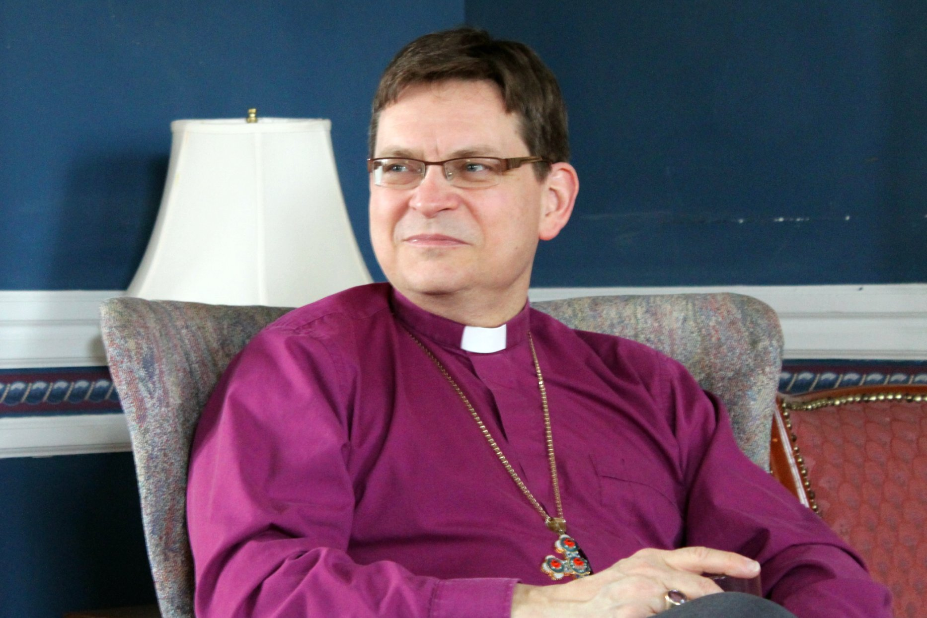 Archbishop Colin Johnson at Holy Cross Priory, Toronto